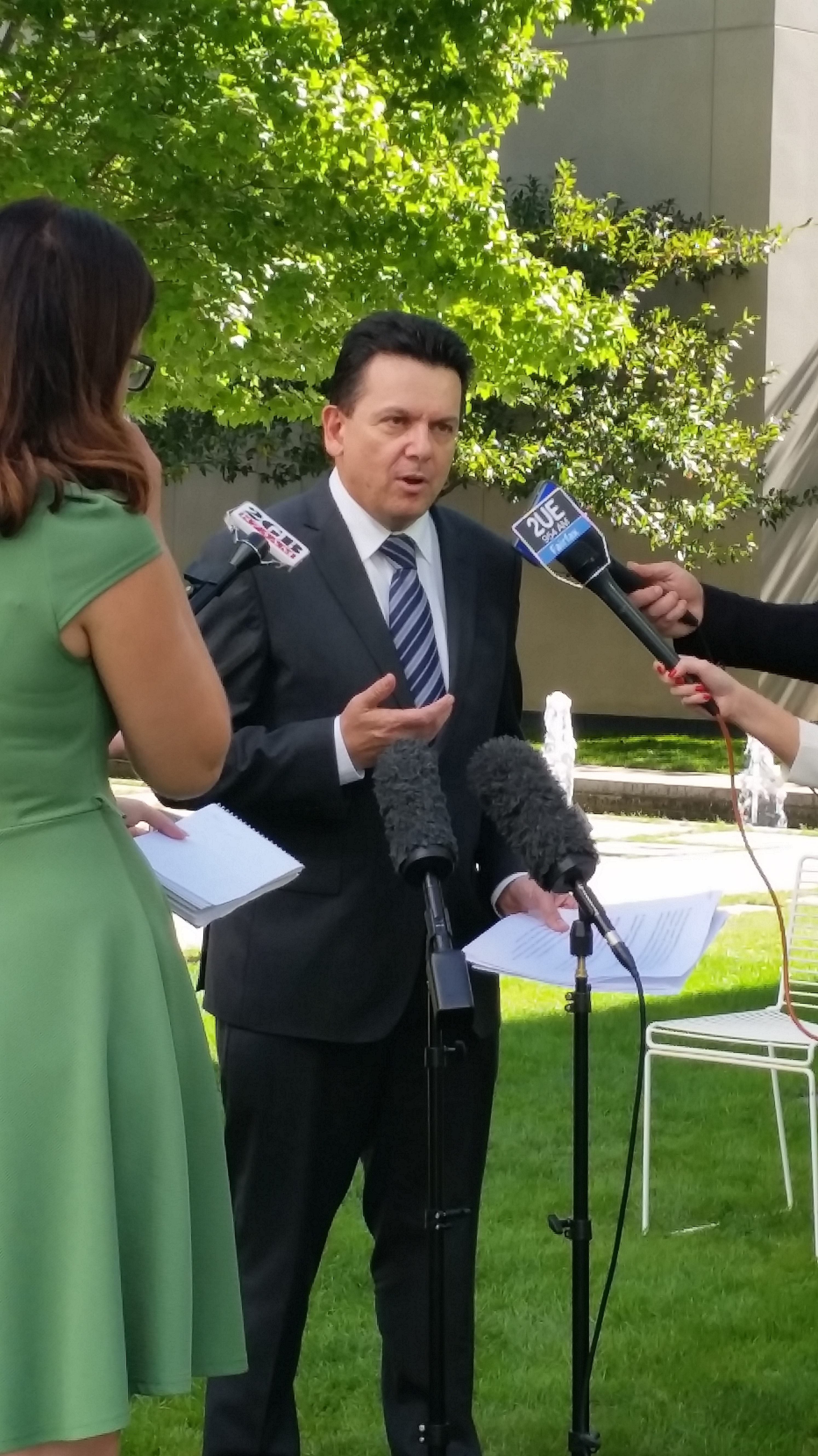 Nick Xenophon speaks to the media at in the courtyard of Parliament House, Canberra.